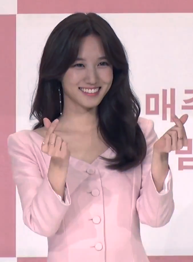 Park Eun-bin at the press conference for the 2018 KBS drama "The Ghost Detective" on August 29, 2018